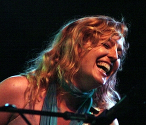 Tift Merritt performing on October 9, 2005 at the Shakori Hills Grassroots Festival, North Carolina. Photograph taken by Forrest L. Smith, III (a.k.a. Filbert Hockey), at the Shakori Hills Music Festival, Chatham County, N.C., October 9, 2005.